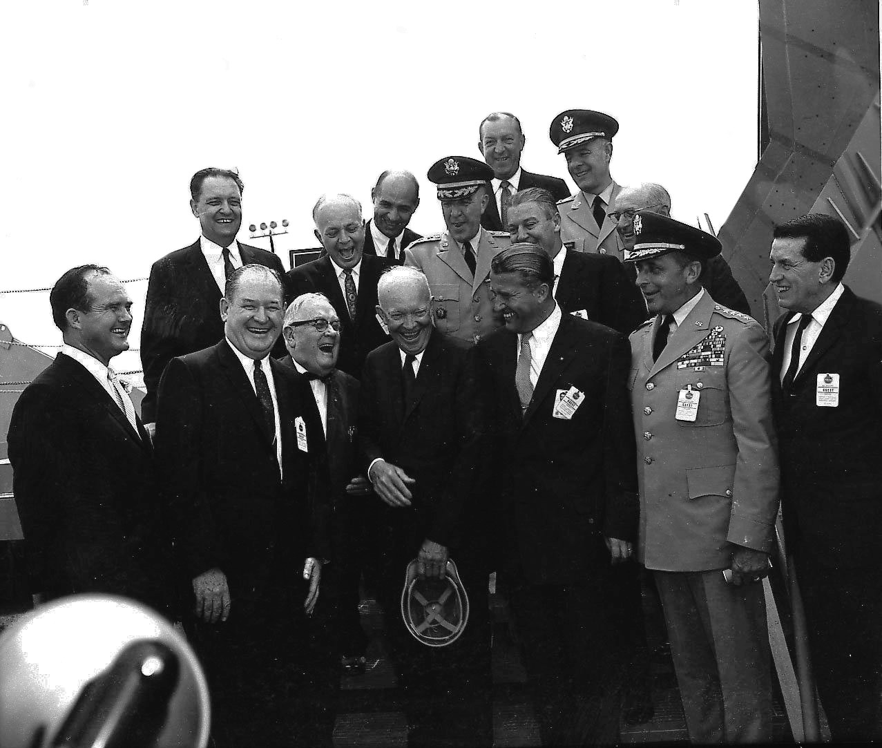 President Dwight D. Eisenhower and MSFC Director Dr. Wernher von Braun share a joke as other dignitaries look on. Eisenhower was visiting Marshall to participate in the September 8, 1960 dedication ceremony.